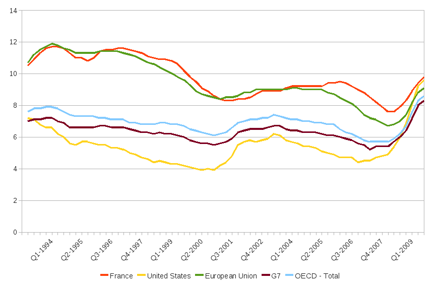 unemployement rates in OECD countries and in France, until Q3 2009